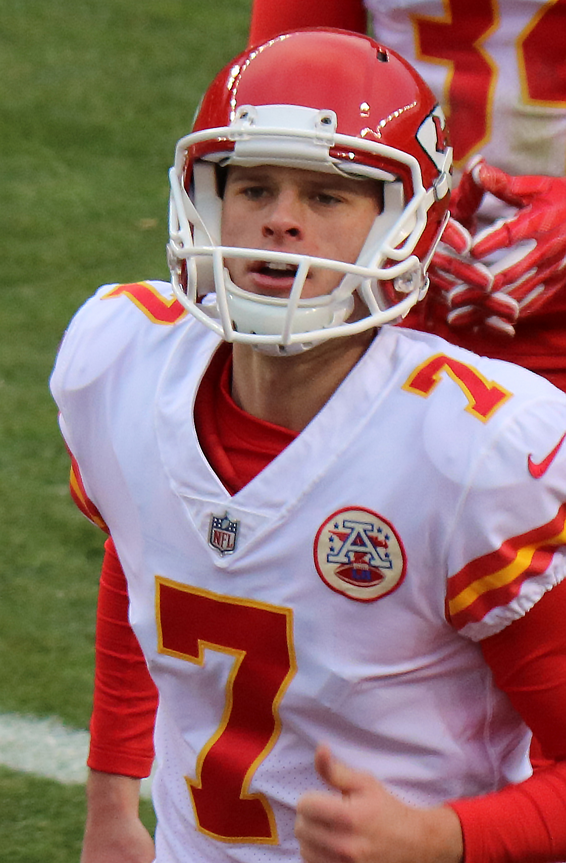 Harrison Butker, a National Football League player.